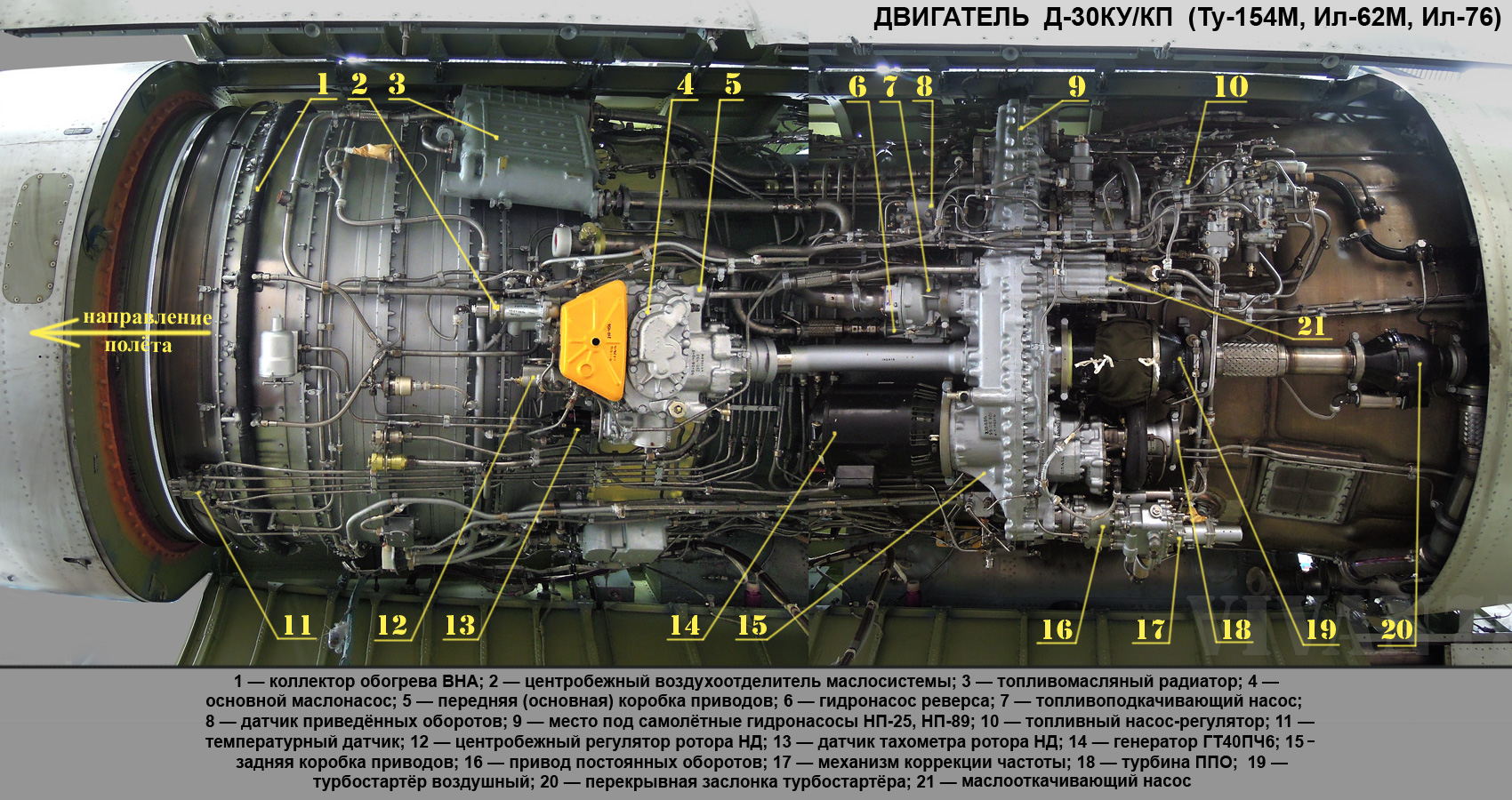 Russian (soviet) jet engine D-30KU-154 by OKB-19 Pavel Soloviev, bottom view. 1 — anti-icing air collector; 2 — oil centrifuge; 3 — oil-to-fuel heat exchanger; 4 — oil pump; 5 — main gearbox; 6 — pump of reverse; 7 — booster fuel pump; 8 — revolutions transducer; 9 — location for hydraulic pumps of aircraft; 10 — fuel pump-regulator; 11 — temperature transducer; 12 — N1 revolutions governor; 13 — N1 revolutions sensor; 14 — alternator; 15 — aux gearbox; 16 — alternator constant speed drive (PPO); 17 — PPO frequency corrector; 18 — PPO air turbine; 19 — air turbine engine starter; 20 — starter valve; 21 — oil scavenge pump